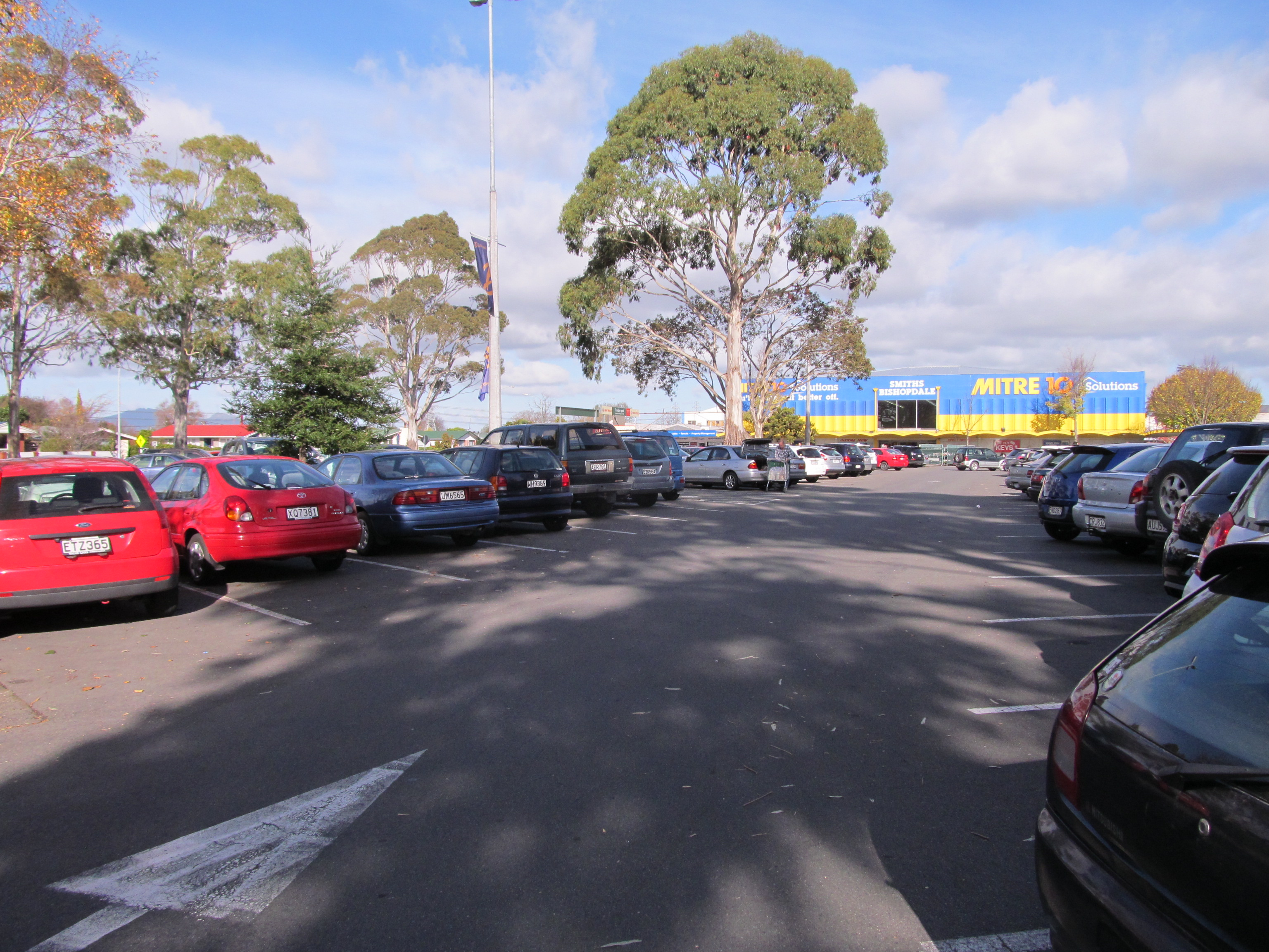 I thought some of you guys from overseas would like to see a Kiwi car park shot, so here you go. Nothing particularly rare here (not in NZ anyway), but the Citroen DS3 next to the RAV4 at the far right isn't an everyday sight. This was taken at Bishopdale Mall in Christchurch, New Zealand on Saturday 10th May 2014.